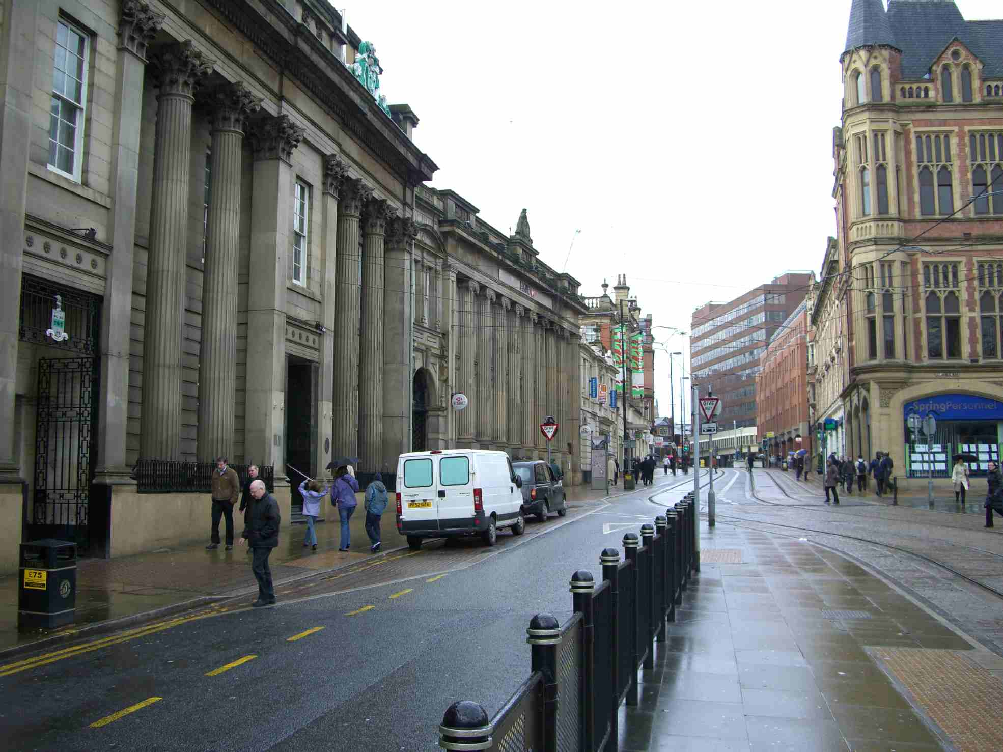 Personal picture taken by Mick Knapton